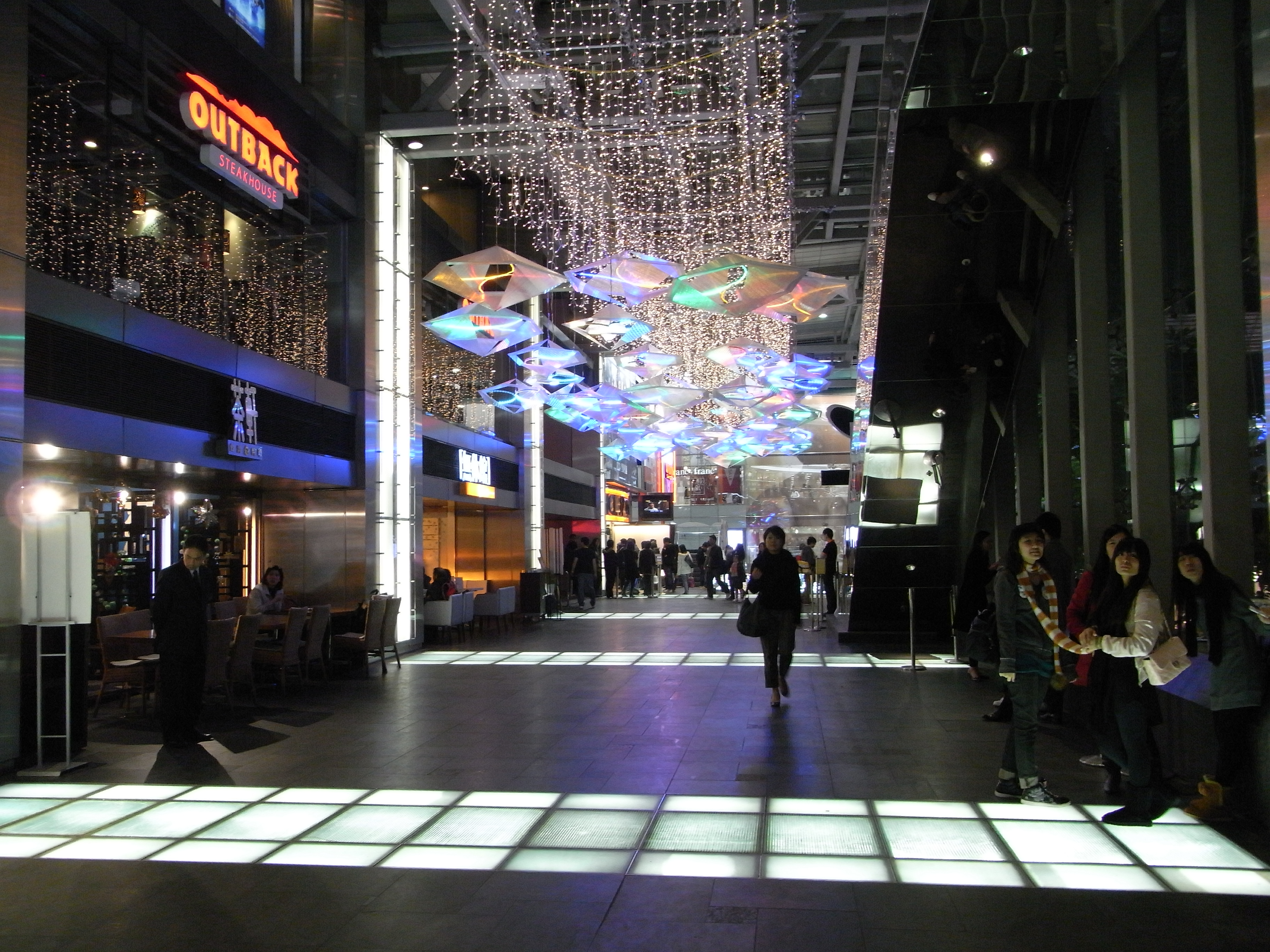 銅鑼灣珠城大廈